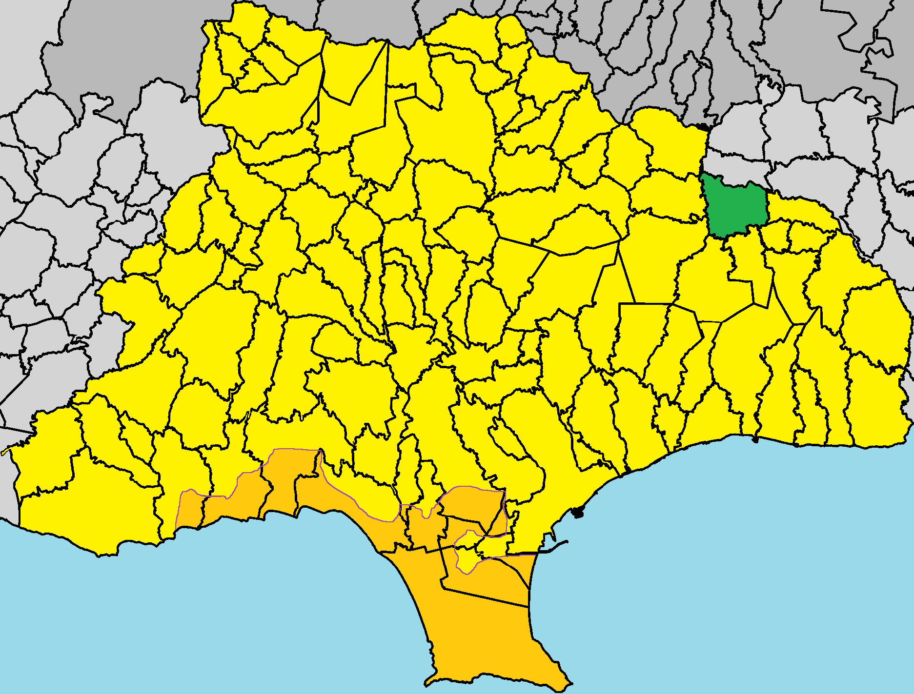 Eptagoneia in Limassol District.